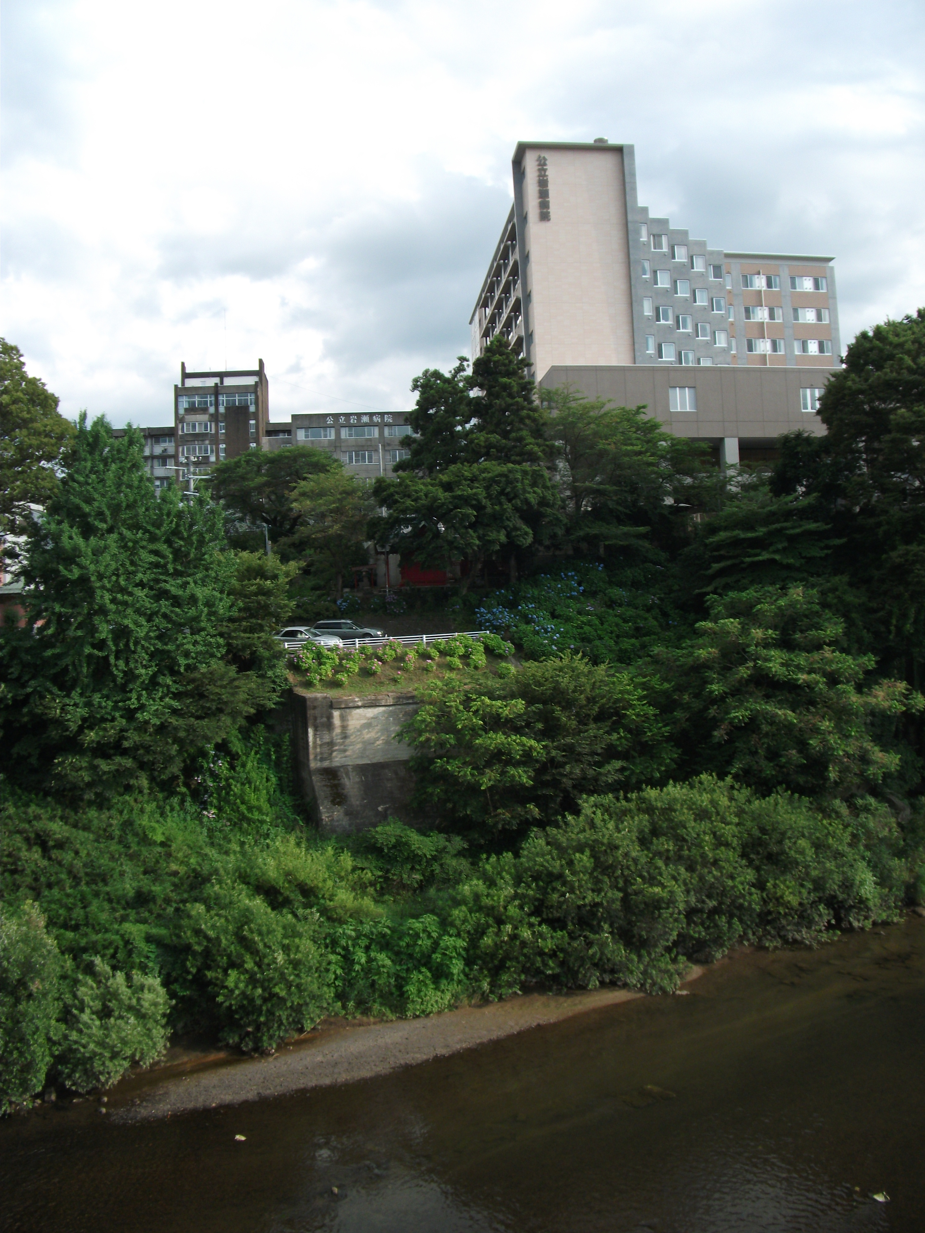 Iwase_General_Hospital (Sukagawa, Fukushima, Japan)